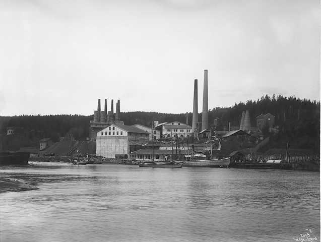 Slemmestad Cementfabrik/Slemmestad Cementfactory, 1909